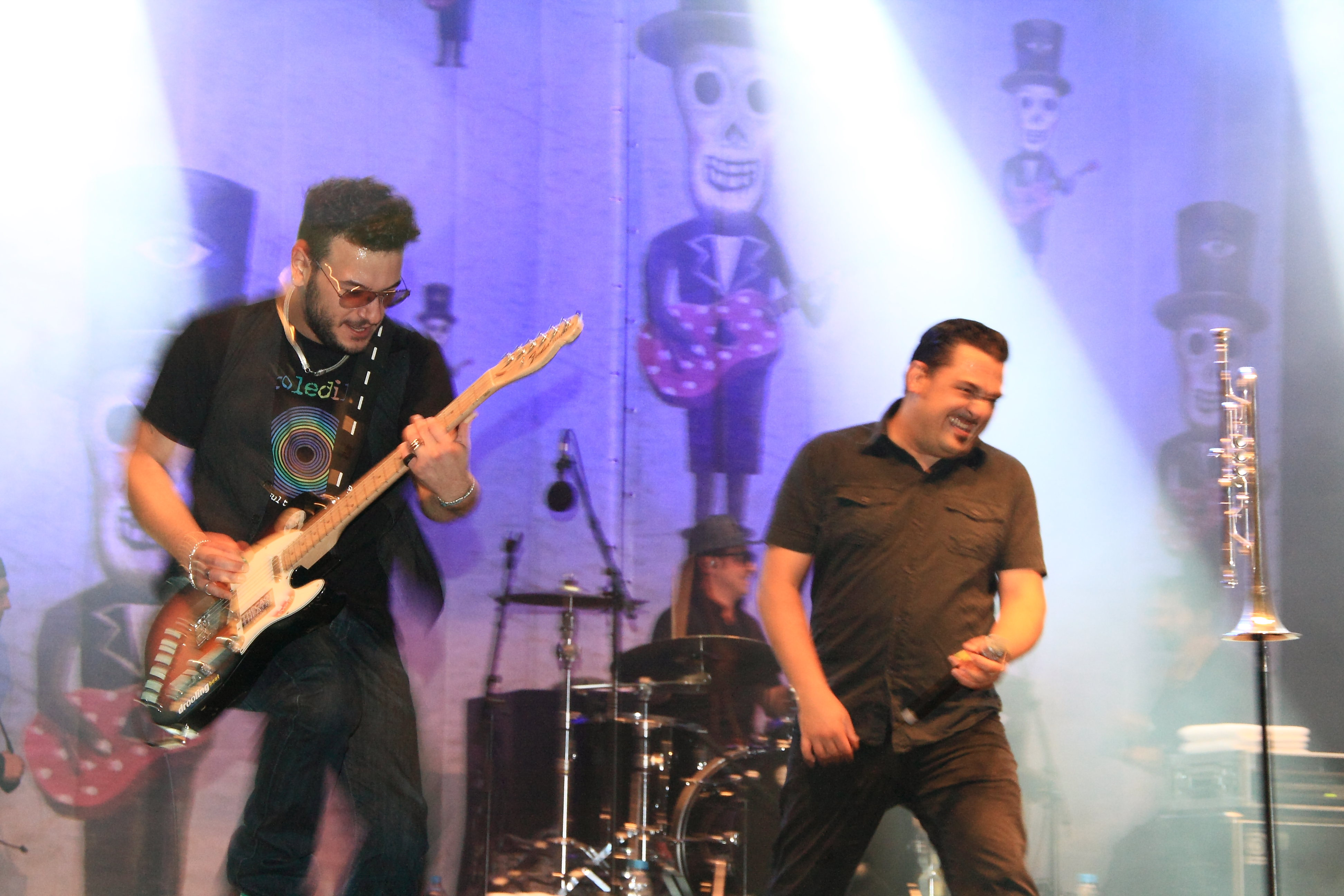 Roy Paci & Emanuele Pagliara (g) at TFF Rudolstadt 2011.